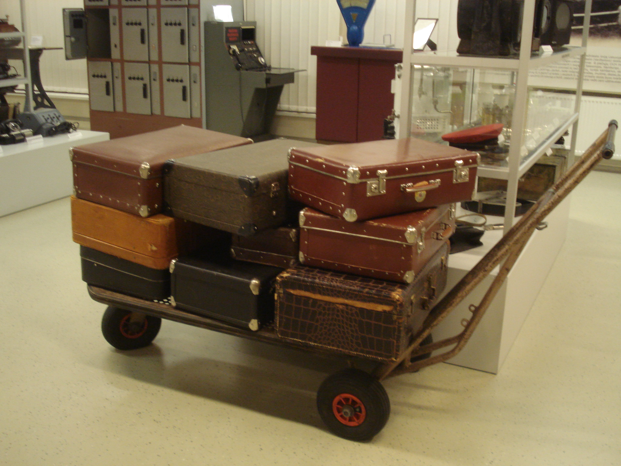 Lithuanian Railway Museum. Vilnius